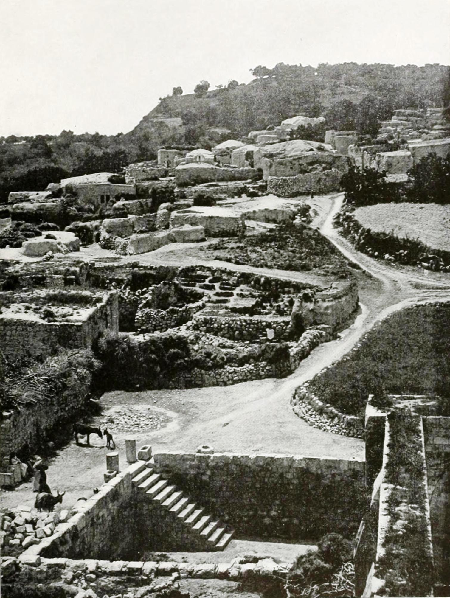 Ruins of Samaria, the Northern Capital . 1910